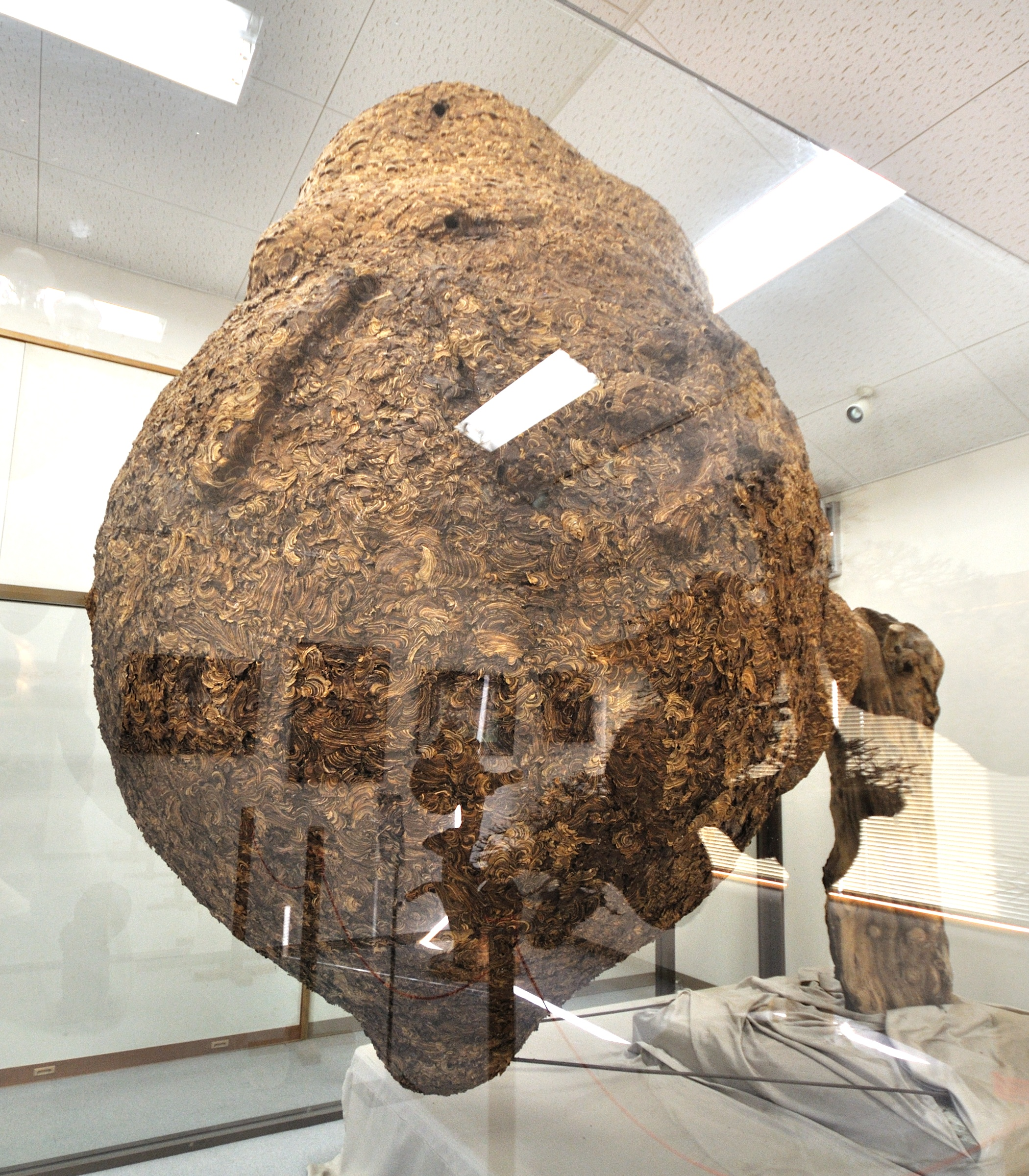 Photograph of large hornet's nest by Bee Museum, is museum in Nakagawa Village, Nagano Prefecture, this photo date is November 8, 2009.